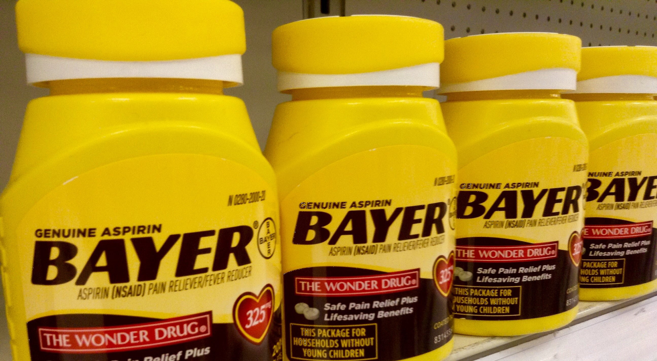 Bayer Aspirin, 1/2015, by Mike Mozart of TheToyChannel and JeepersMedia on YouTube